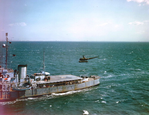 The world's first helicopter landing by U.S. Coast Guard Sikorsky HOS-1 on a helicopter carrier, USCGC Cobb (WPG-181), 15 June 1944. The world's first take-off from a helicopter carrier occurred from the same ship on 29 July.